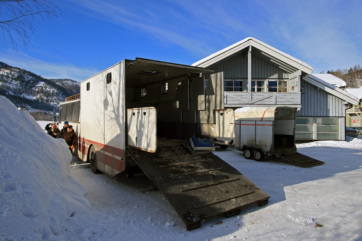 Repstad bodied Volvo B10M converted to horse transport.